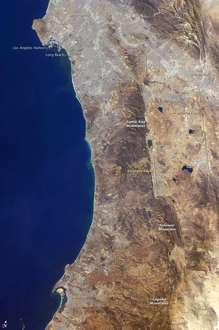 The Southern California Coast, from San Pedro Bay (Los Angeles) to San Diego Bay, with the Peninsular Ranges. Taken in 2008.